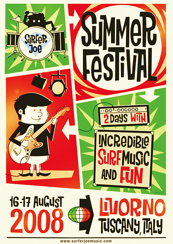 Poster of the Surfer Joe Summer Festival 2008. Artwork by Fred Lammers.